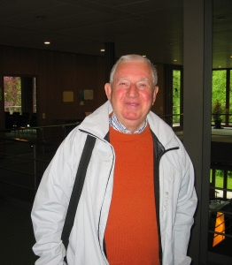 Mathematician Bernard Malgrange at the workshop “Arithmetic and Differential Galois Groups” in Oberwolfach, 2007.